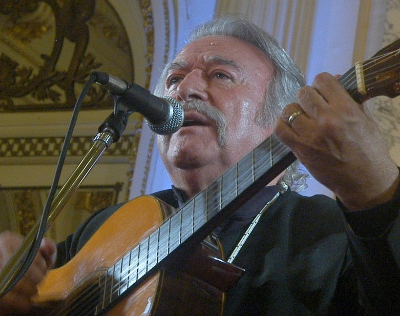 César Isella. Singing at the Pink House (White Hall). Buenos Aires, Argentina.